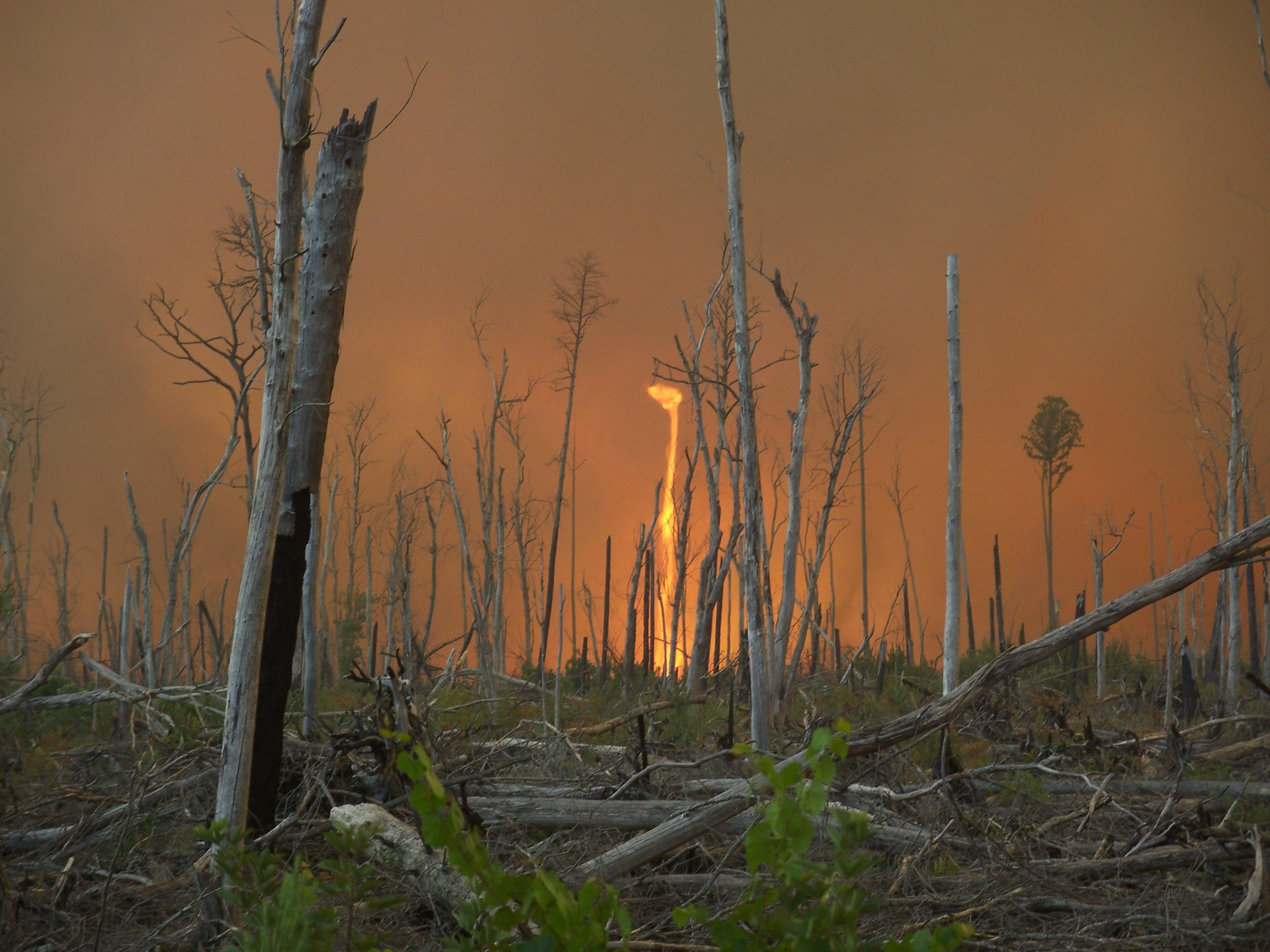 Photo of the Week - 08/15/11 Suffolk, VA, August 2011: A firey tornado rages off Corapeake Road in the Lateral West Wildlfire on Great Dismal Swamp National Wildlife Refuge. The fire burned in the scar of the 2008 South One Fire in a restoration area for Atlantic white cedar. Credit: Greg Sanders/USFWS.